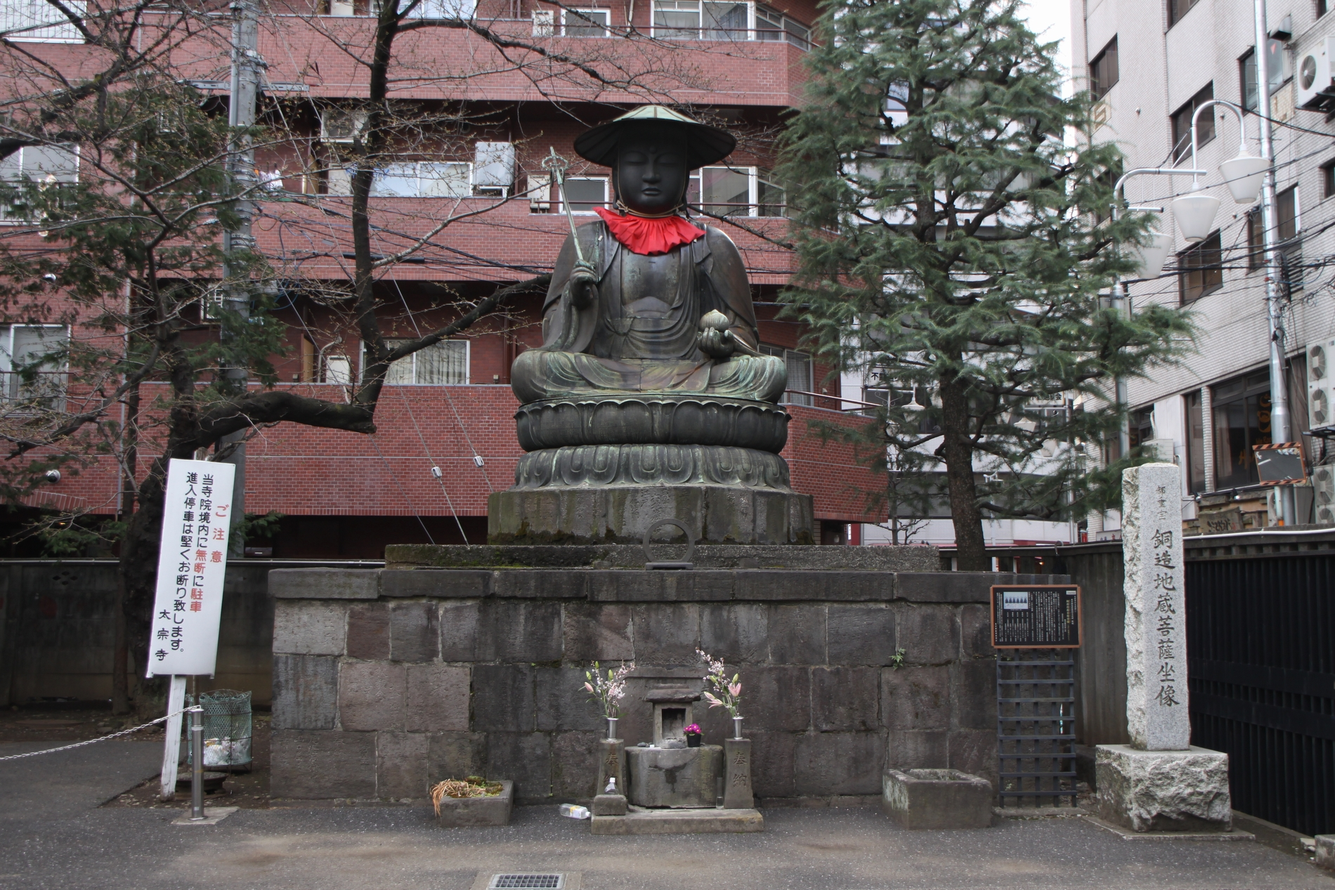 Jizō-Bosatsu (Ksitigarbha) at Taisō-ji temple in Shinjuku, Tokyo